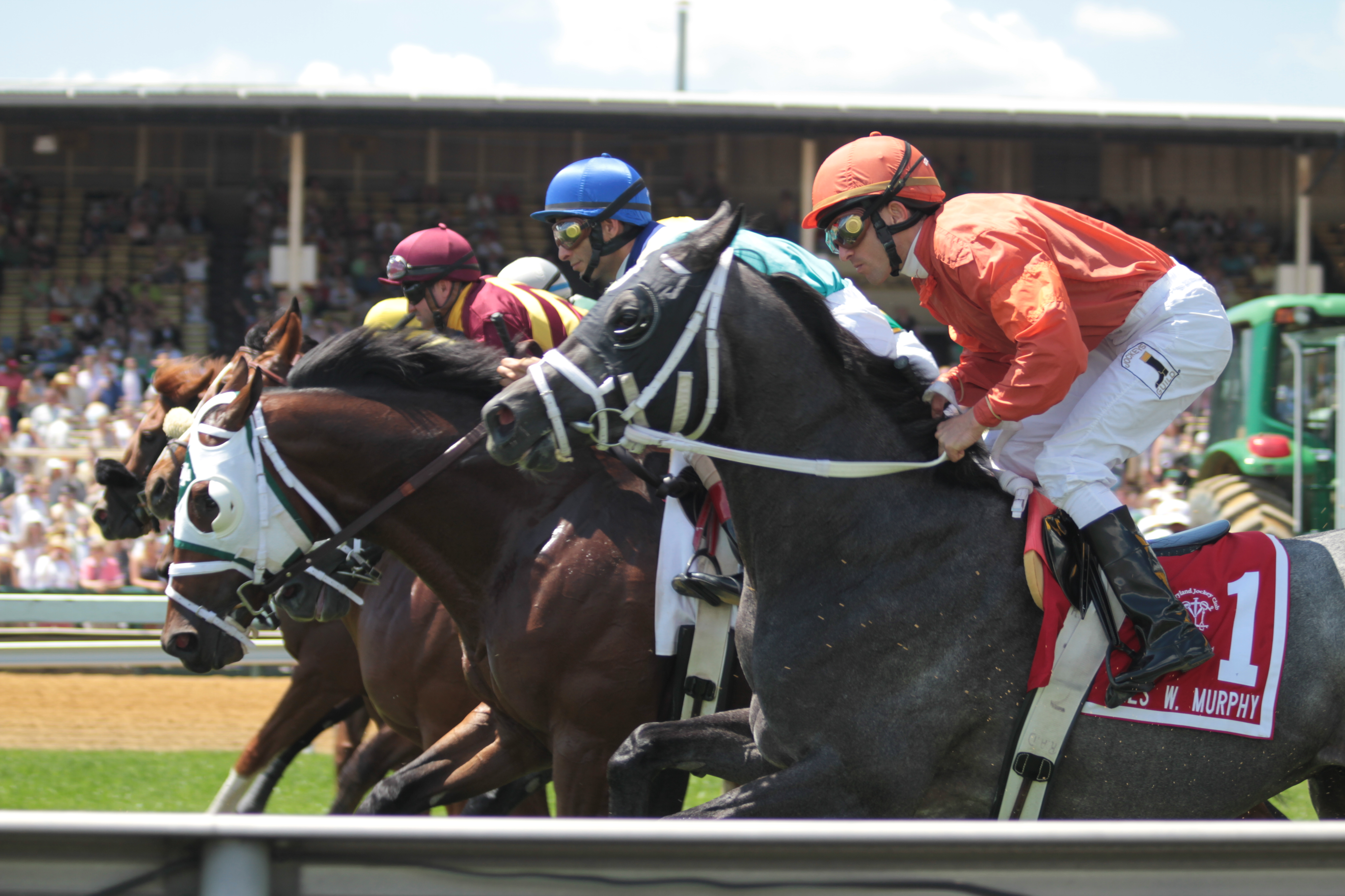 Chinglish (third horse from left), winner of the 2011 James Murphy Stakes run a Pimlico on May 21, 2011, edges out third place finisher Master Dunker (foreground). Source here for chart [1].